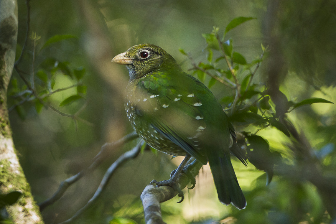 Green Catbird - Lamington NP - Queensland_S4E6919